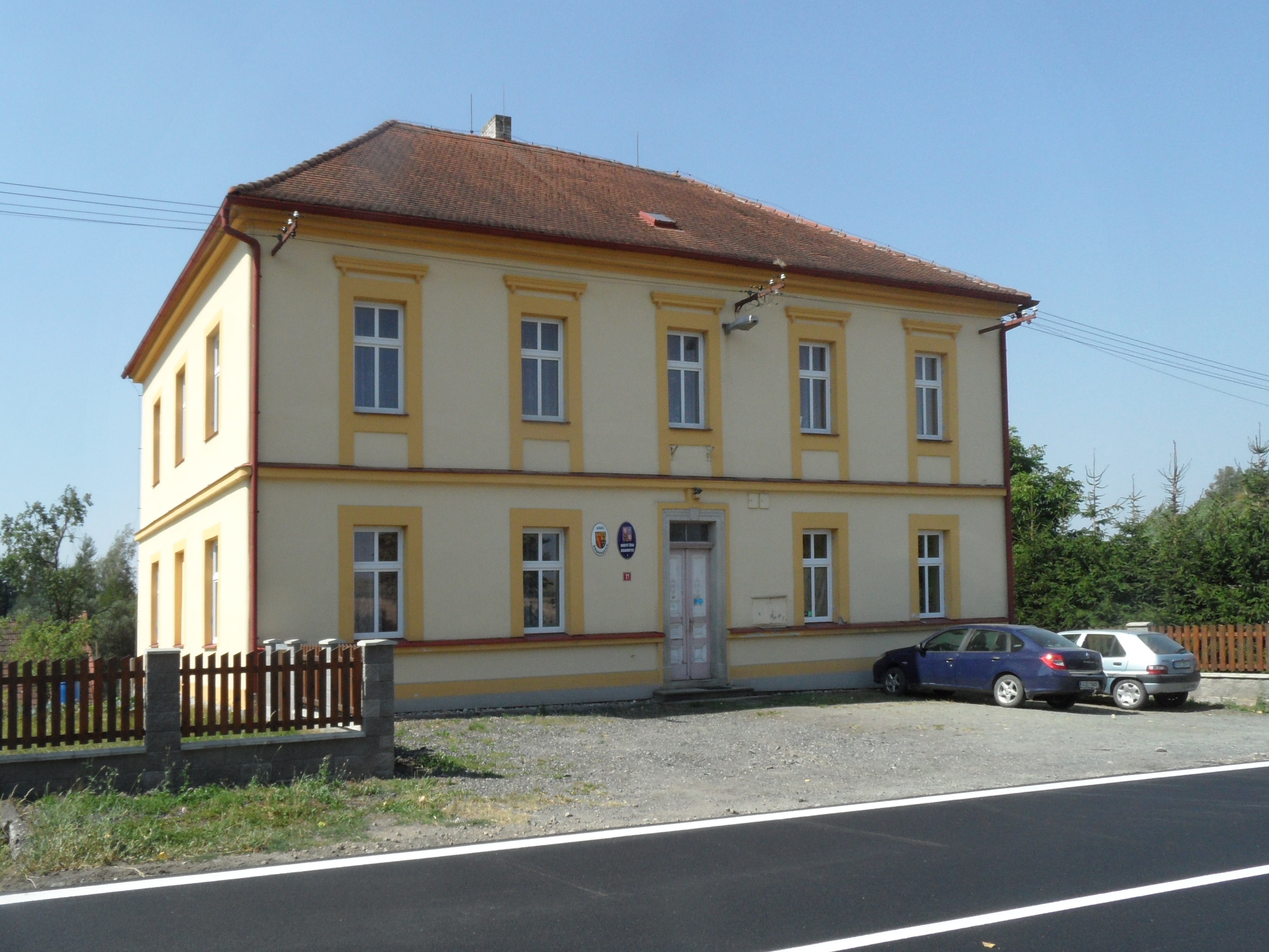 Kraborovice A. Building of Municipalilty Office with Newly Open Museum (former Primary School). Havlíčkův Brod District, the Czech Republic.